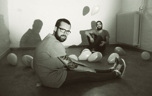 This picture is a portrait of swedish indie-band I Used To Be A Sparrow (Andrea Caccese and Dick Pettersson). This picture is our work (The band and our team) freely available online as part of the band's 2013 press kit.